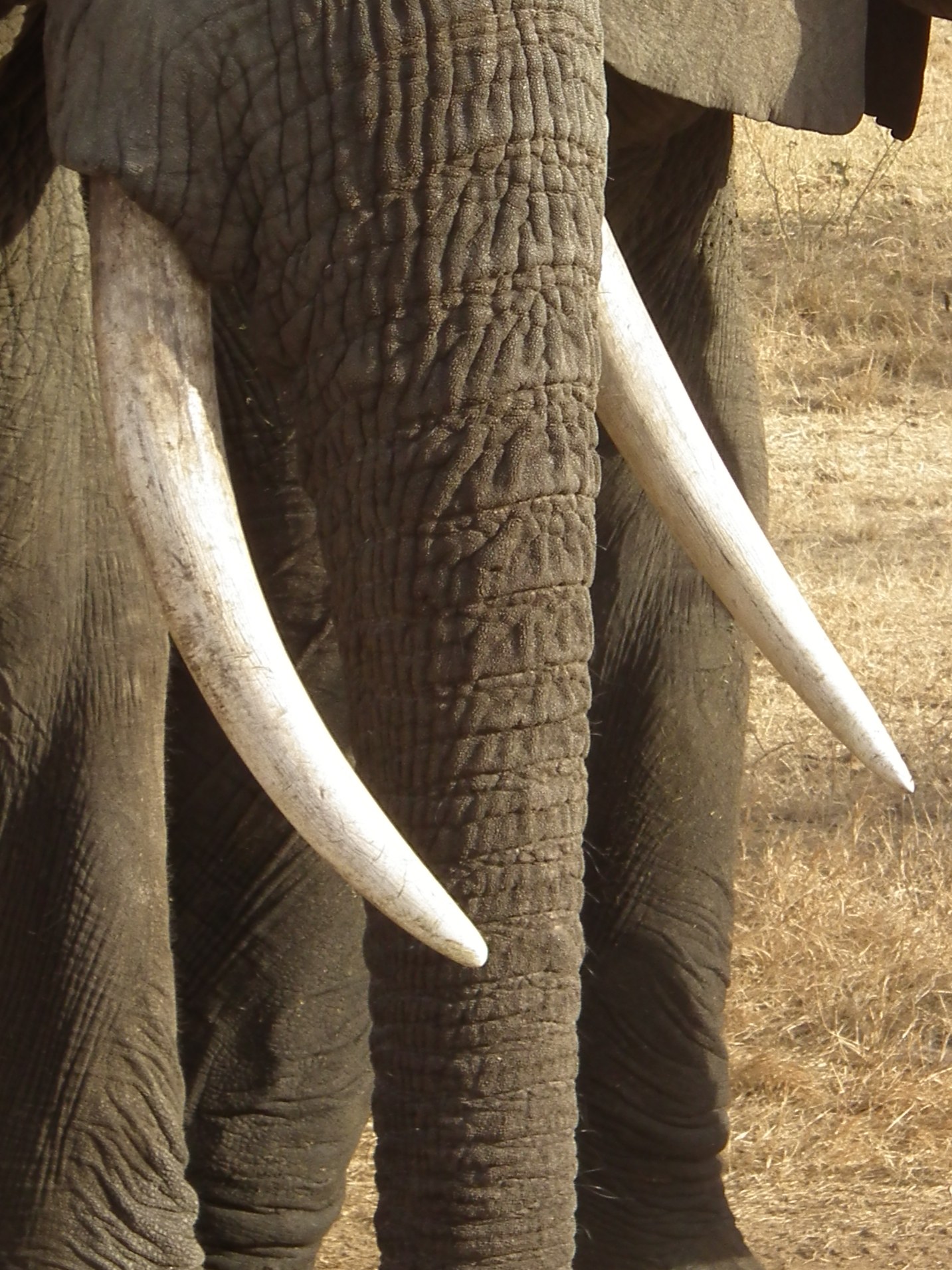 African elephant, Loxodonta, picture taken in Tanzania